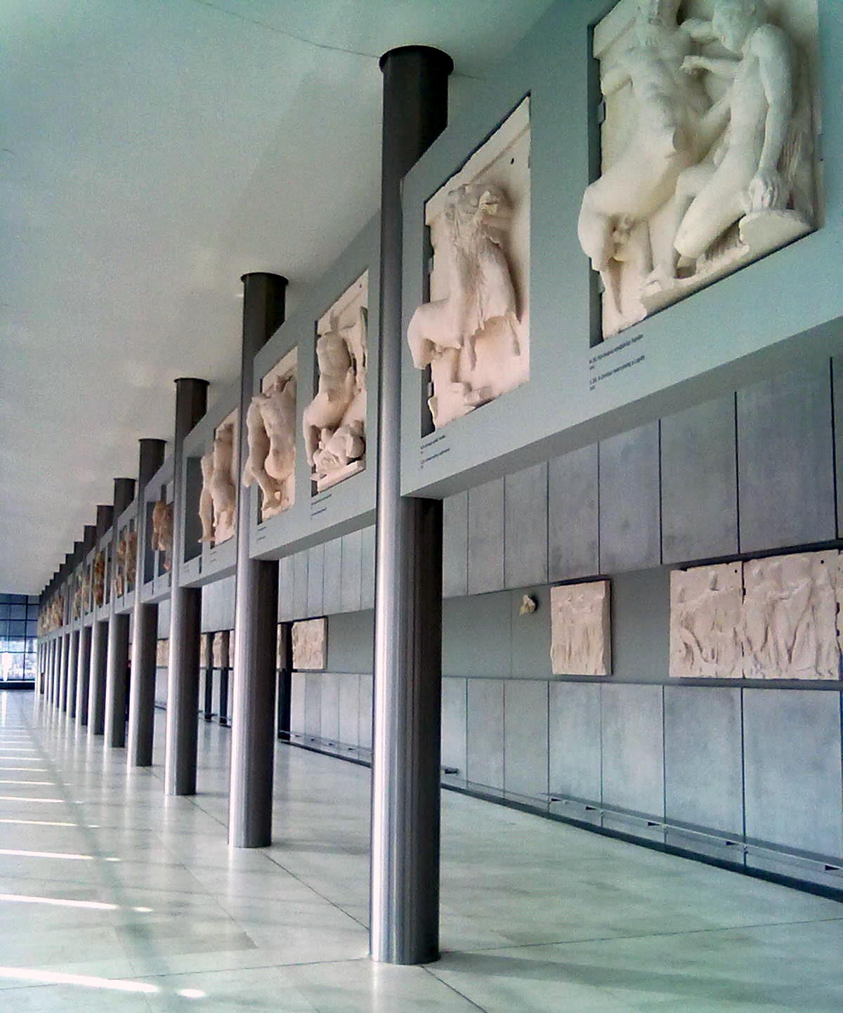 Museum have our history